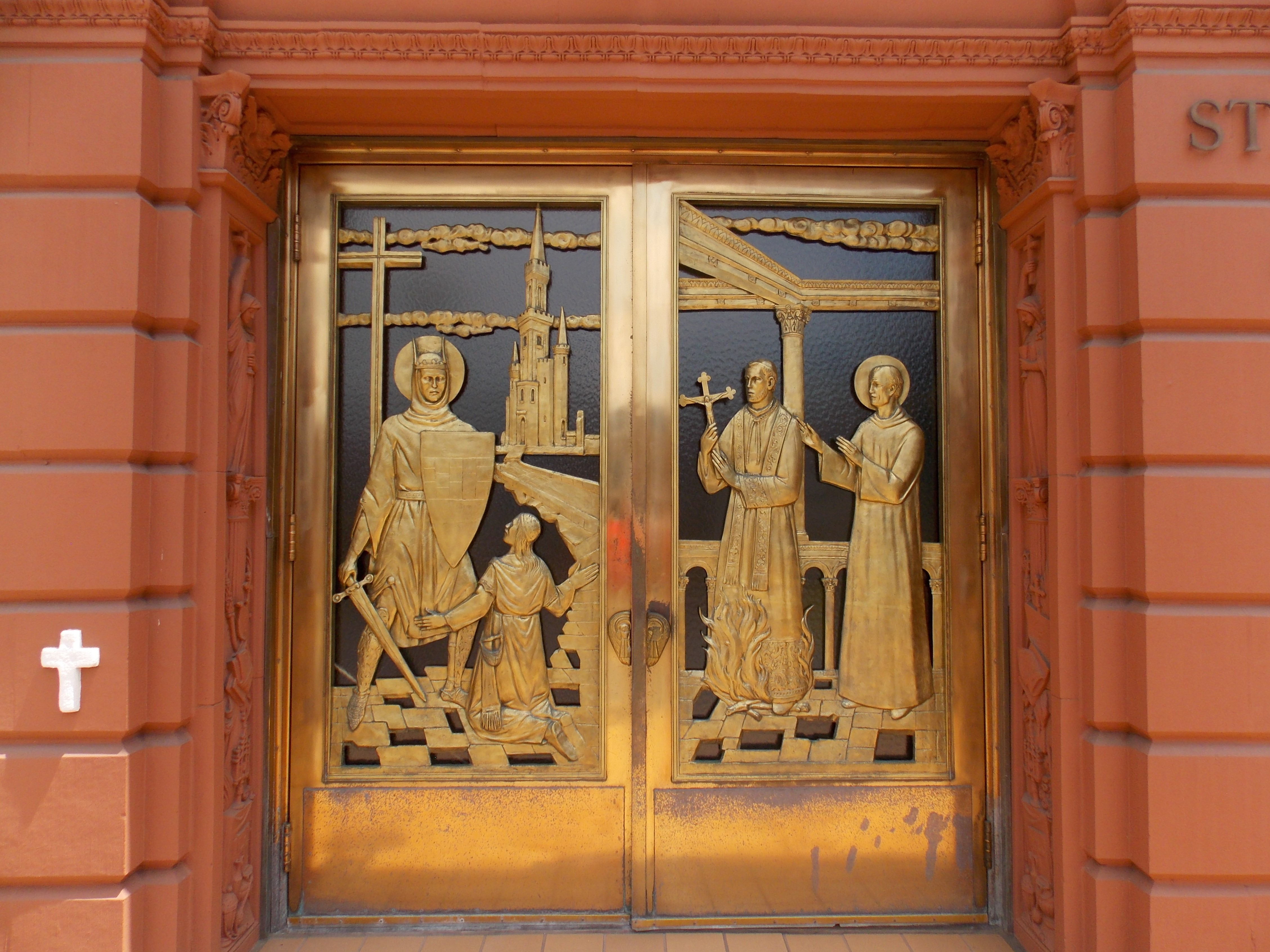 One set of doors on the front of St. John Gualbert Cathedral in Johnstown, Pennsylvania.